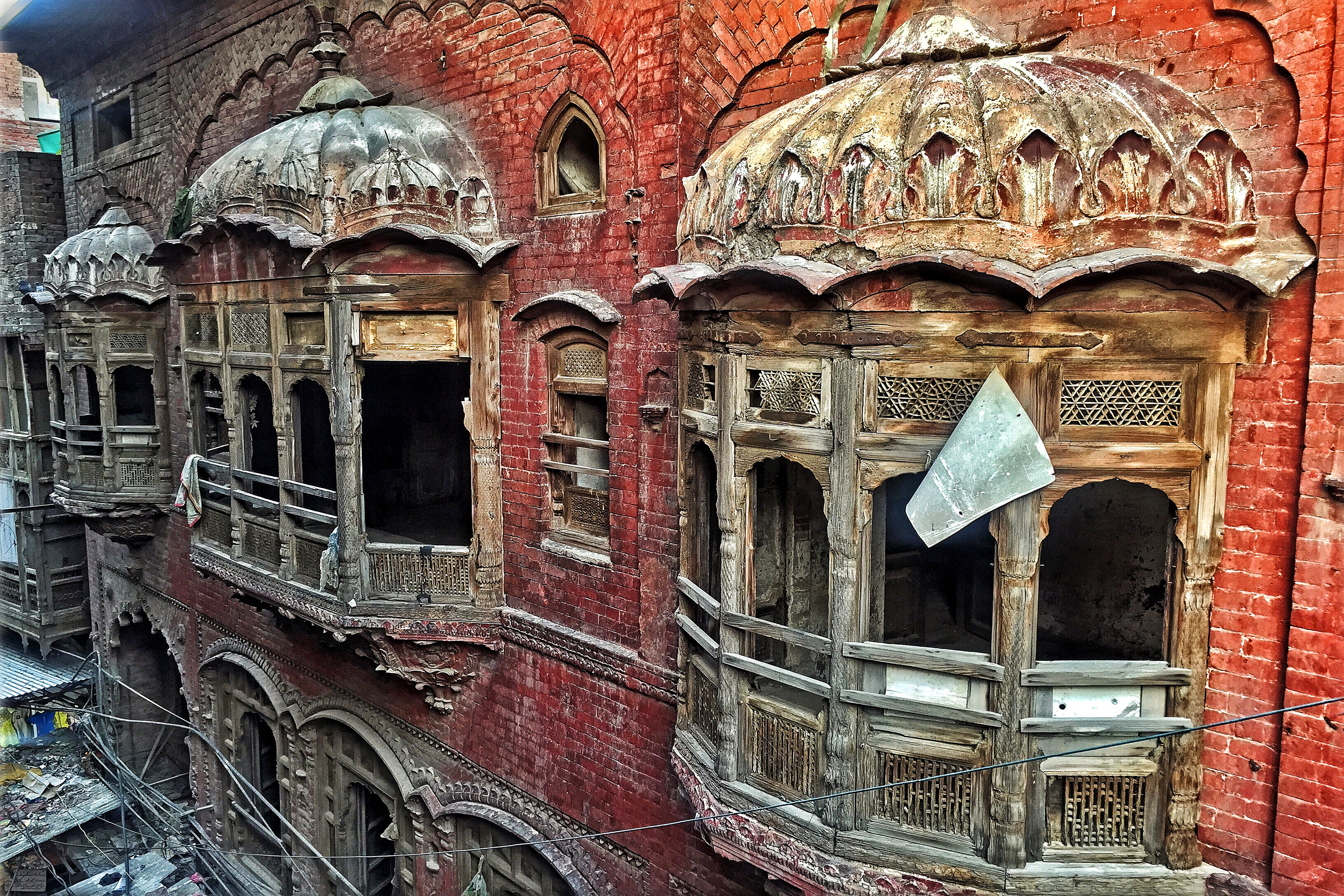 Lal Haveli This is a photo of a monument in Pakistan identified as the L-U-2